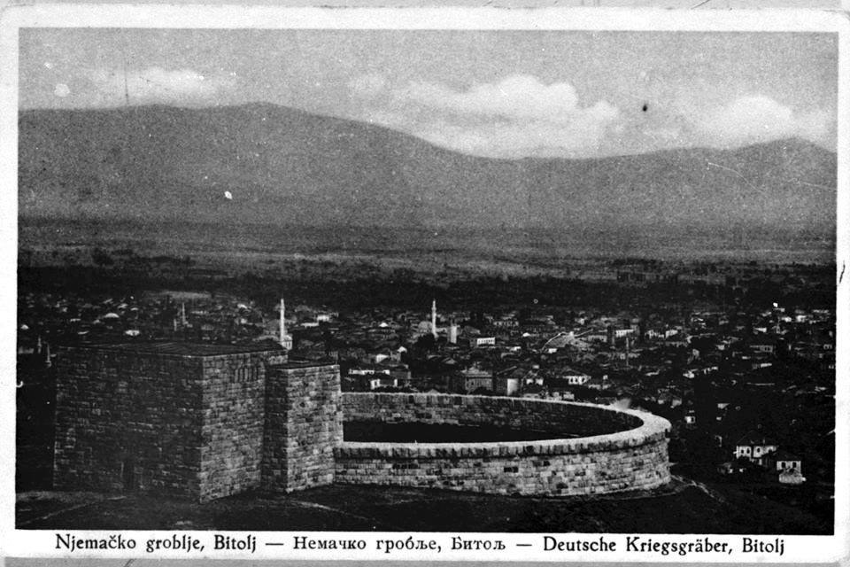 German military graveyard Bitola